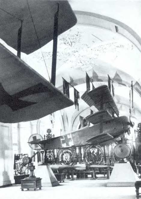 fokker dr.I